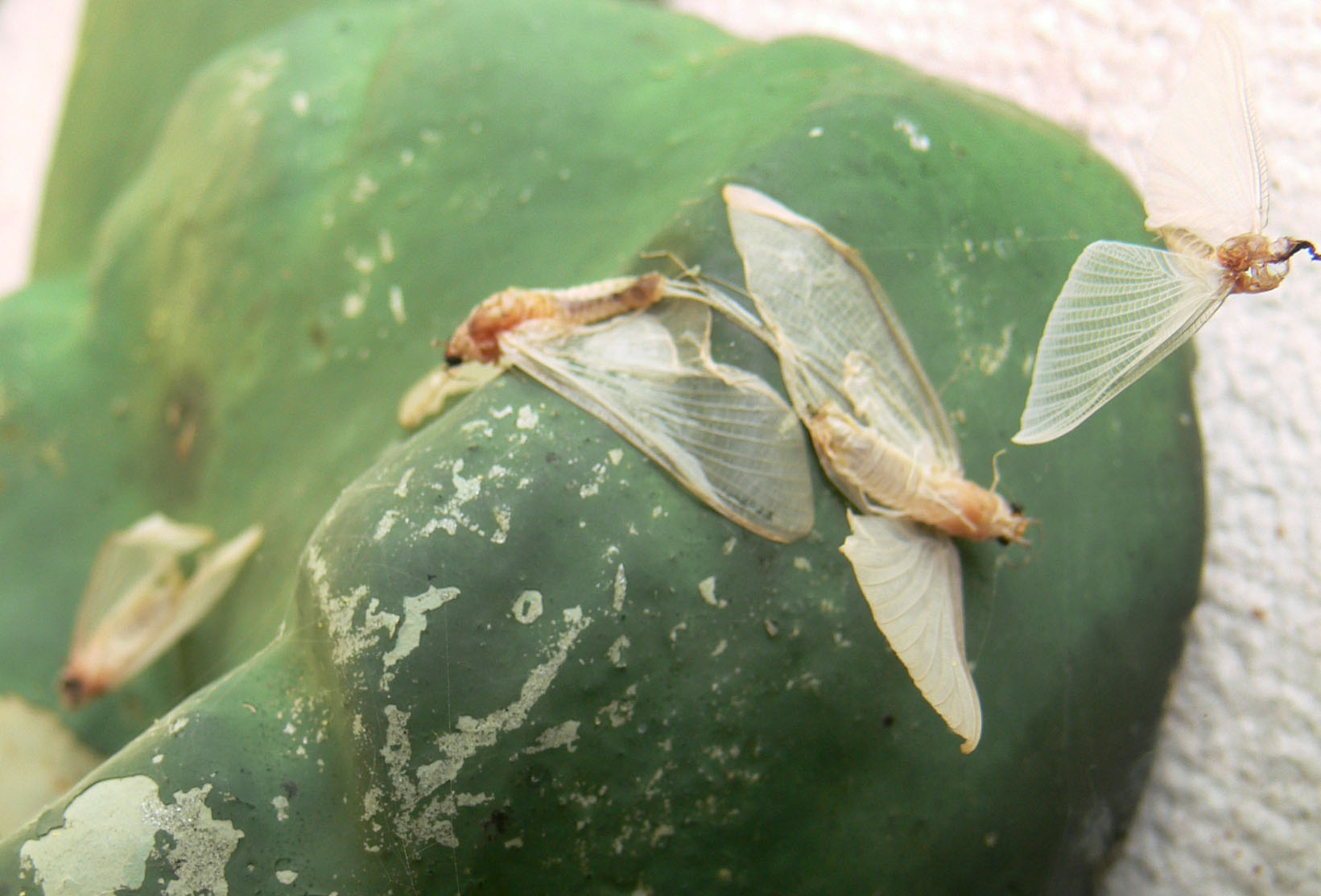 Briare canal bridge over the Loire (France). Example of impact of "light pollution" on the Loire River (which is often described as the last wild river in France). More lights are close to the center of the Loire (on the bridge that crosses it at right angles), the more lights attract insects at night just emerging from the water (rem: Some of these insects (Trichoptera sp., Plecoptera sp. including Ephemeroptera) are regarded as "bioindicators" indicating good water quality, and are rapidly declining in France since the early twentieth century). On this bridge, the further away to the right or left banks of the river Loire, under the lights attract insects. The amount of cobwebs (Spider web), the number and size of spiders and the number of bodies of insects are clues to the amount of trapped insects and, since every morning wasps come - sometimes hundreds - "steal" the spiders on their web, part of dead insects they were killed and stored in a sheath of silk in the night. Because of the heat lamps and their intensity, these spiders have an abnormally prolyxe food, and they are unusually numerous. This phenomenon seems to be what ecologists call a "green shaft". Bats and fishes could also be perturbed by this light.